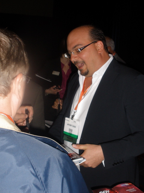 Anthony Zuiker signs autographs at FOSE